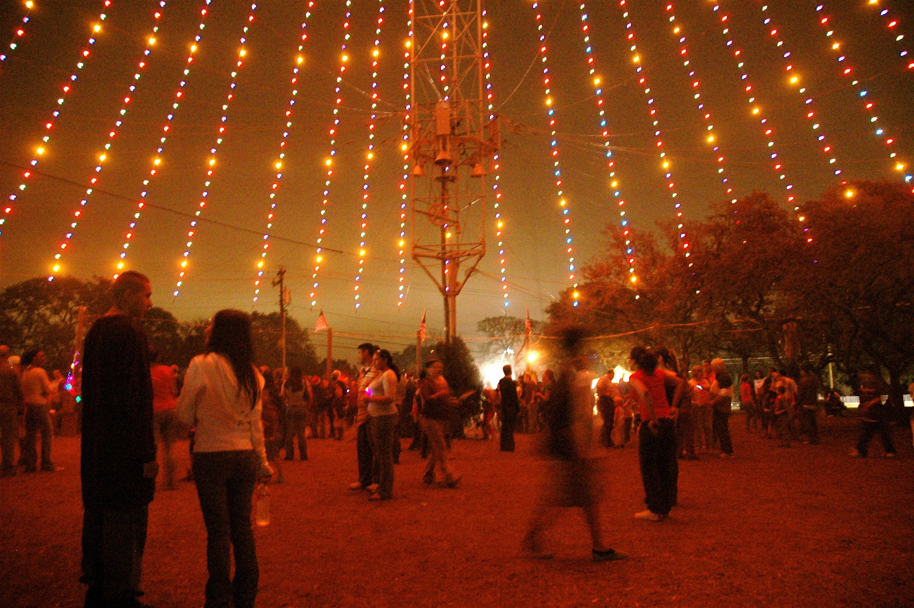 People walking under the Zilker Tree. Christmas in Austin, Texas.